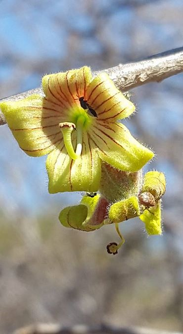 Sterculia rogersii - Mopane Camp, Kruger National Park, South Africa